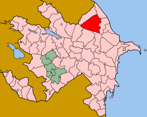 Map of Azerbaijan showing Quba rayon.